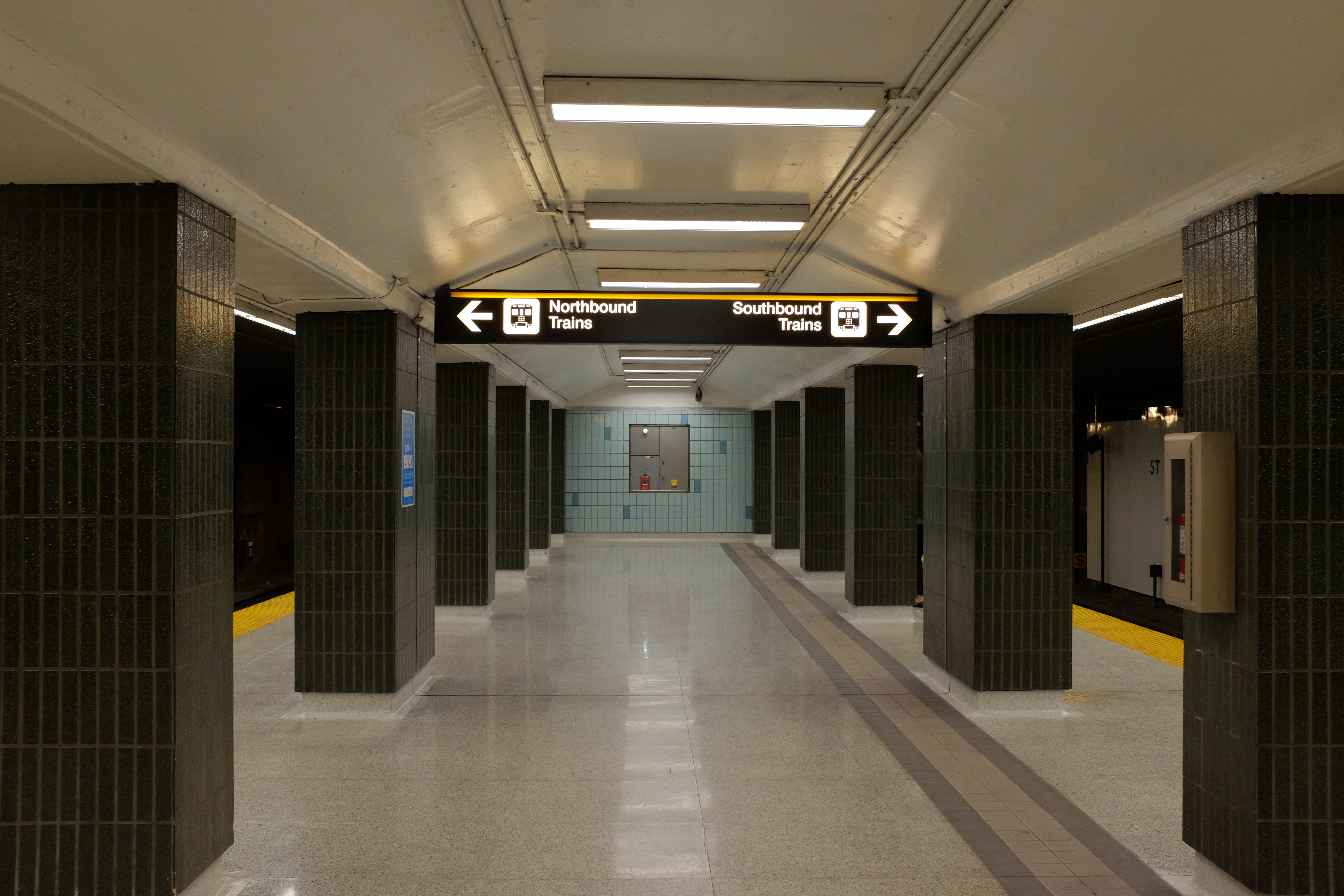 St. Andrew Subway Station